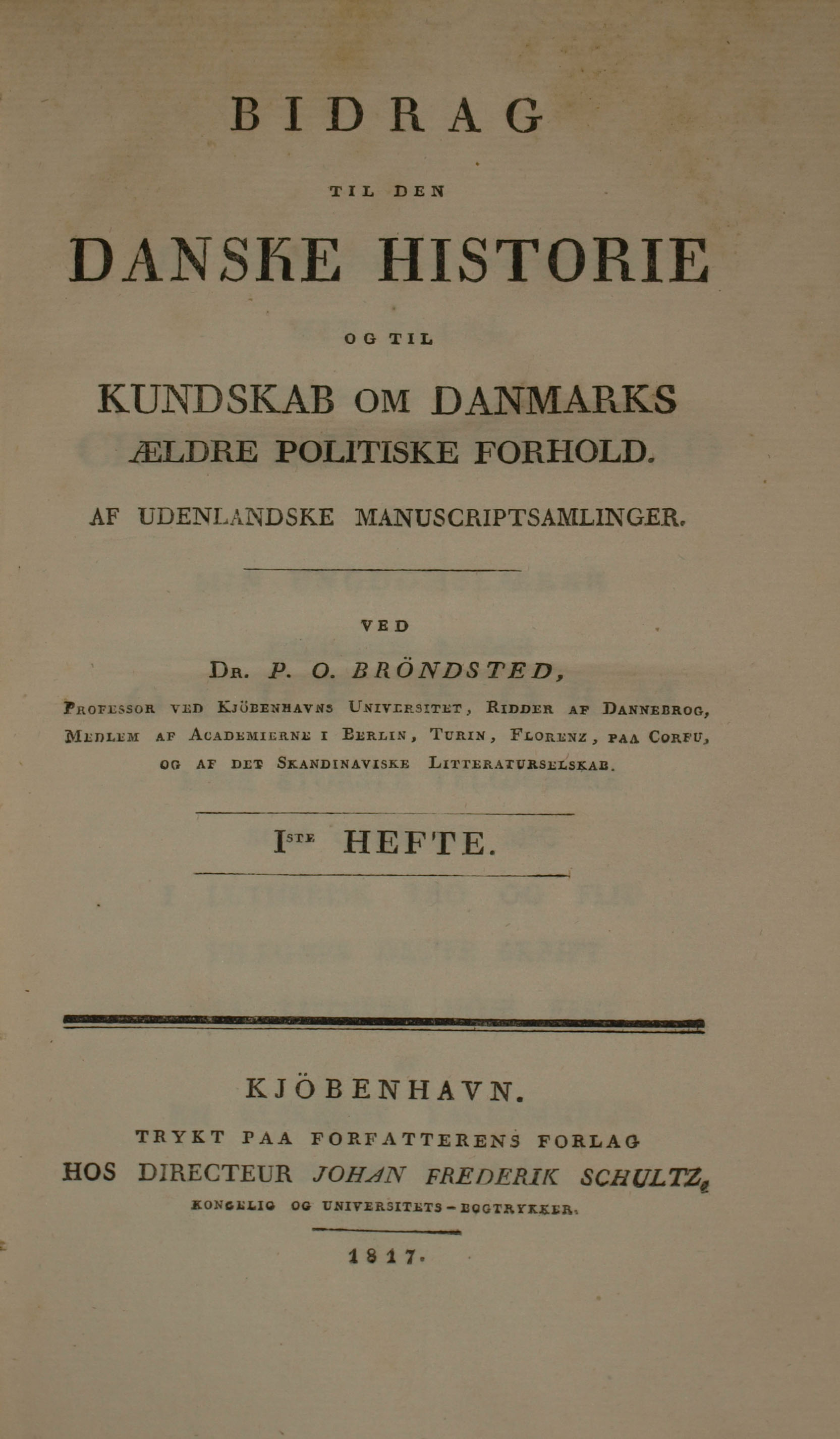 Titelbladet til P.O. Brøndsteds Bidrag til den danske historie og til kundskab om Danmarks ældre politiske forhold. Af udenlandske manuscriptsamlinger. 1ste Hefte, fra 1817.